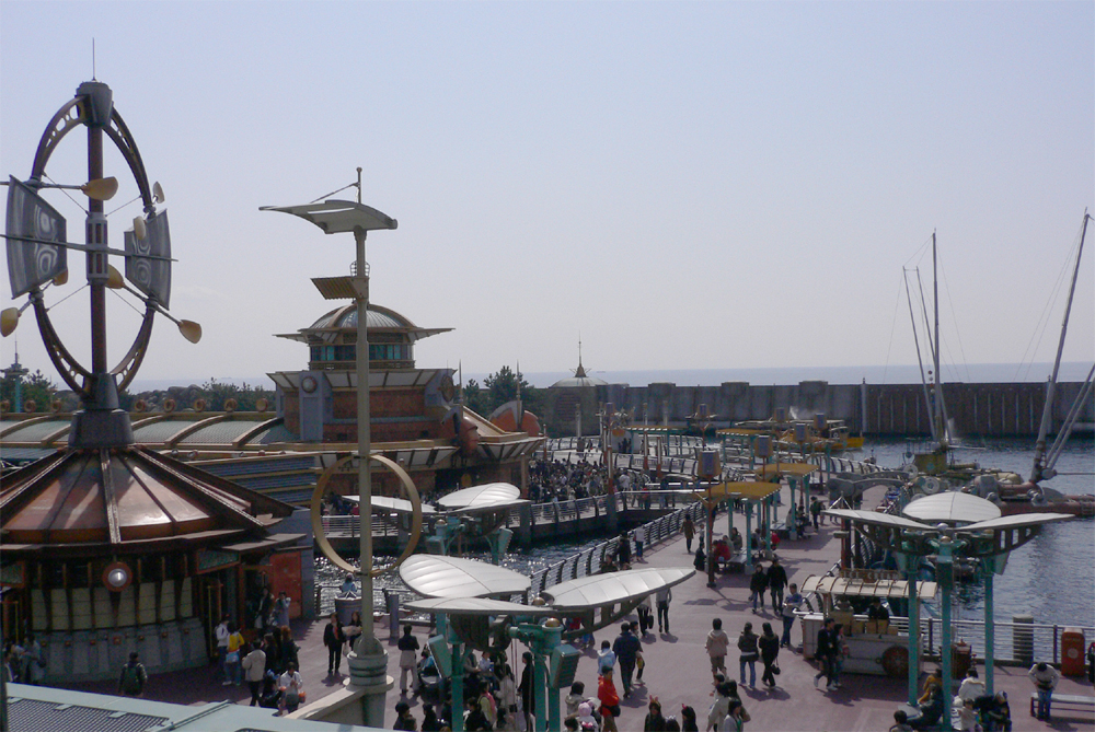 Port Discovery (Tokyo DisneySea Theme Port)